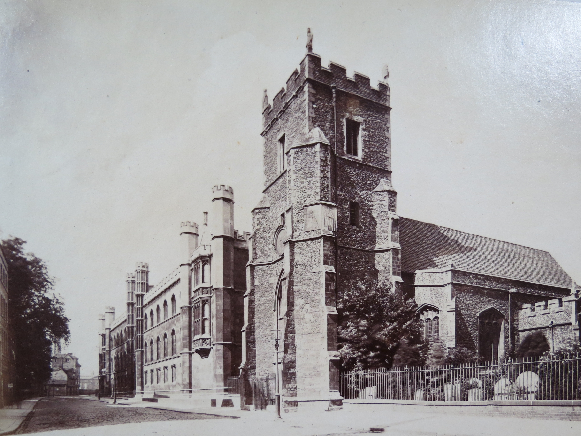 St. Botolph's Church, next to Corpus Christi College, Cambridge University, circa 1870. Image taken from original albumen print from a bound album of 58 Cambridge University photographs. Original 19th century album in the possession of Kimberly Blaker, New Boston Fine and Rare Books.